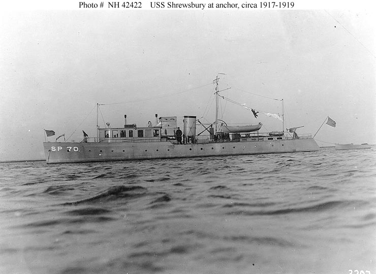 United States Navy patrol boat USS Shrewsbury (SP-70) at anchor.